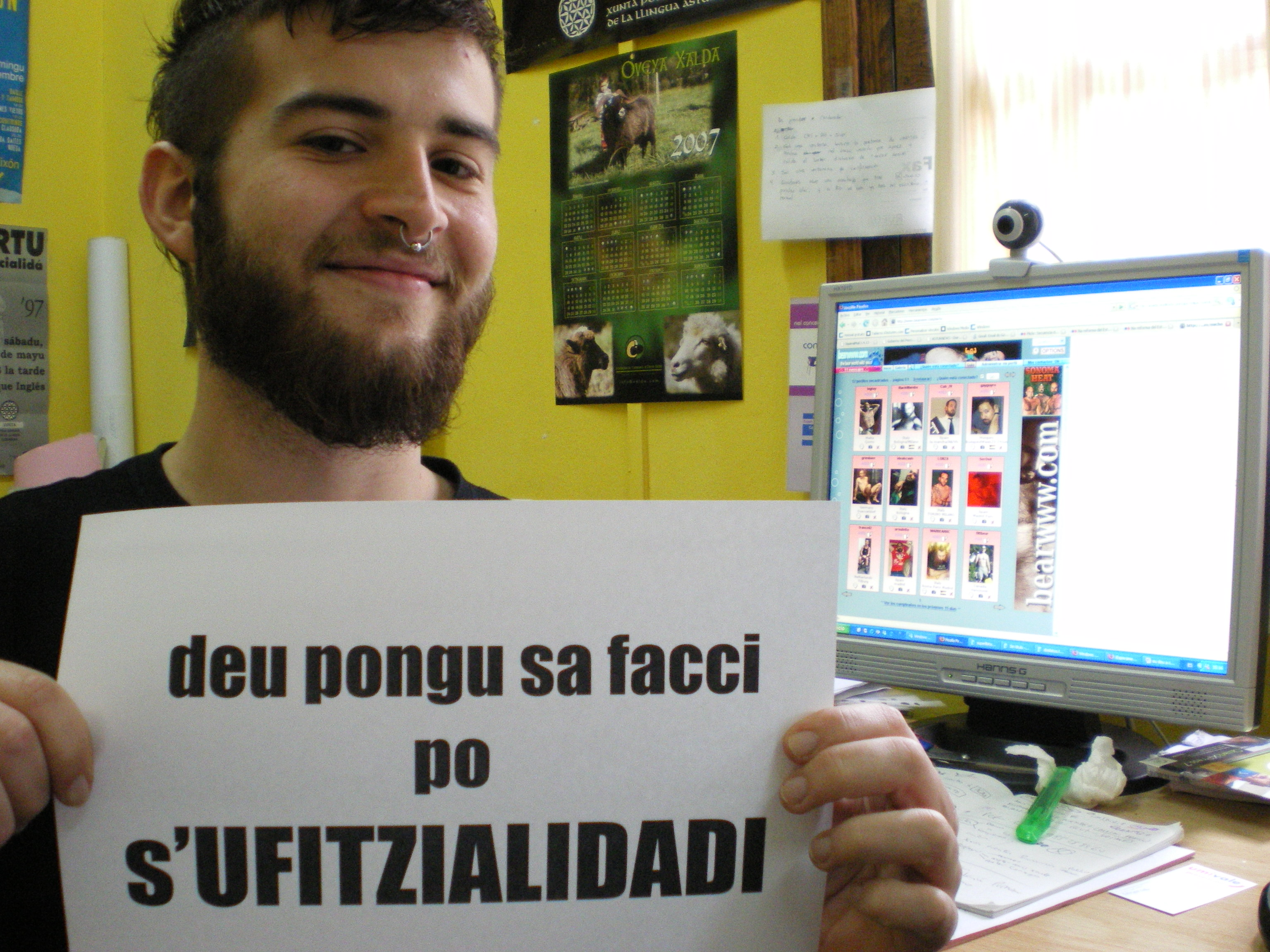 Writing in southern sardinian language